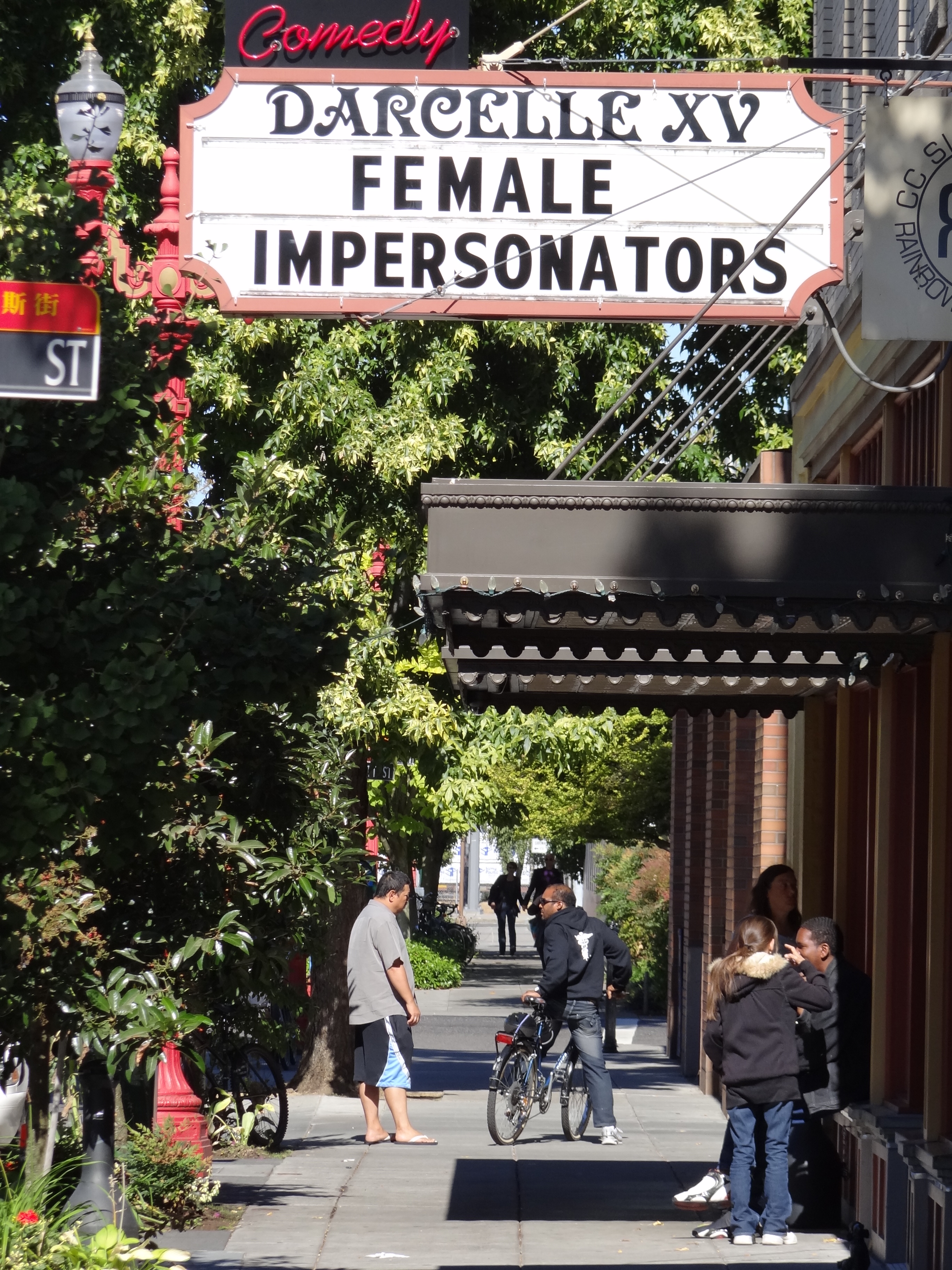 Street Scene with Darcelle XV Female Impersonators Sign - Portland - Oregon - USA